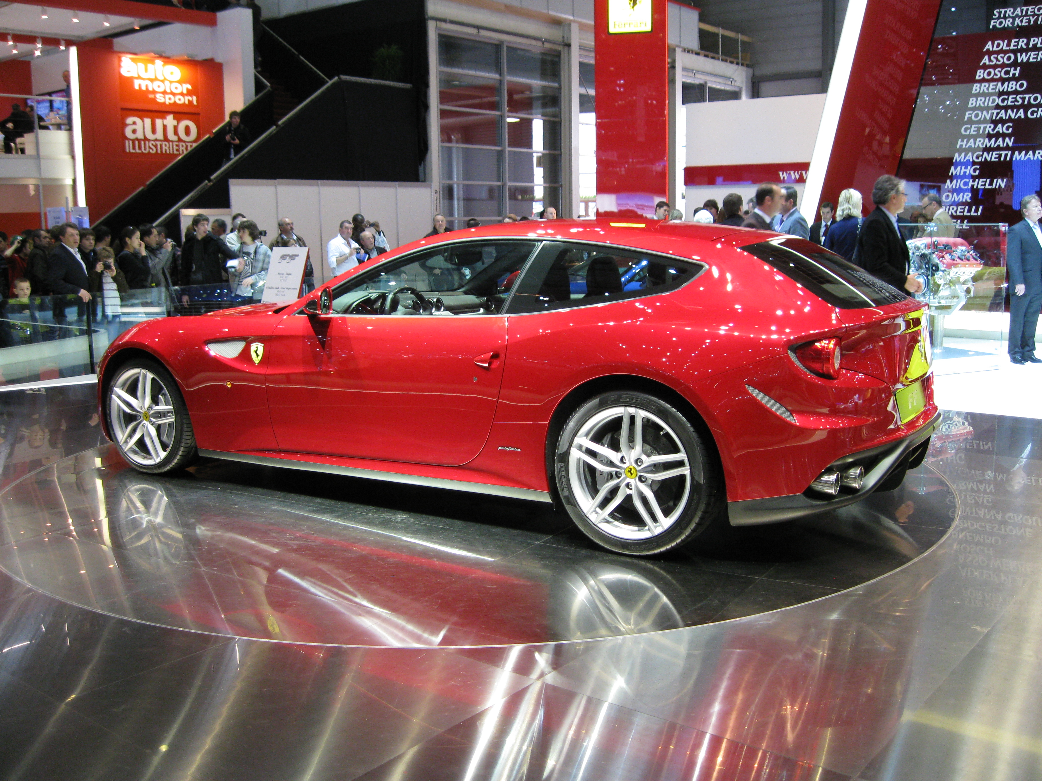 Geneva Motor Show 2011